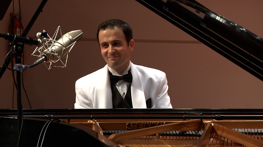 Giorgi Latsabidze, Georgian Pianist. Los Angeles 2009